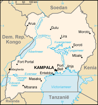 An Afrikaans map of Uganda.